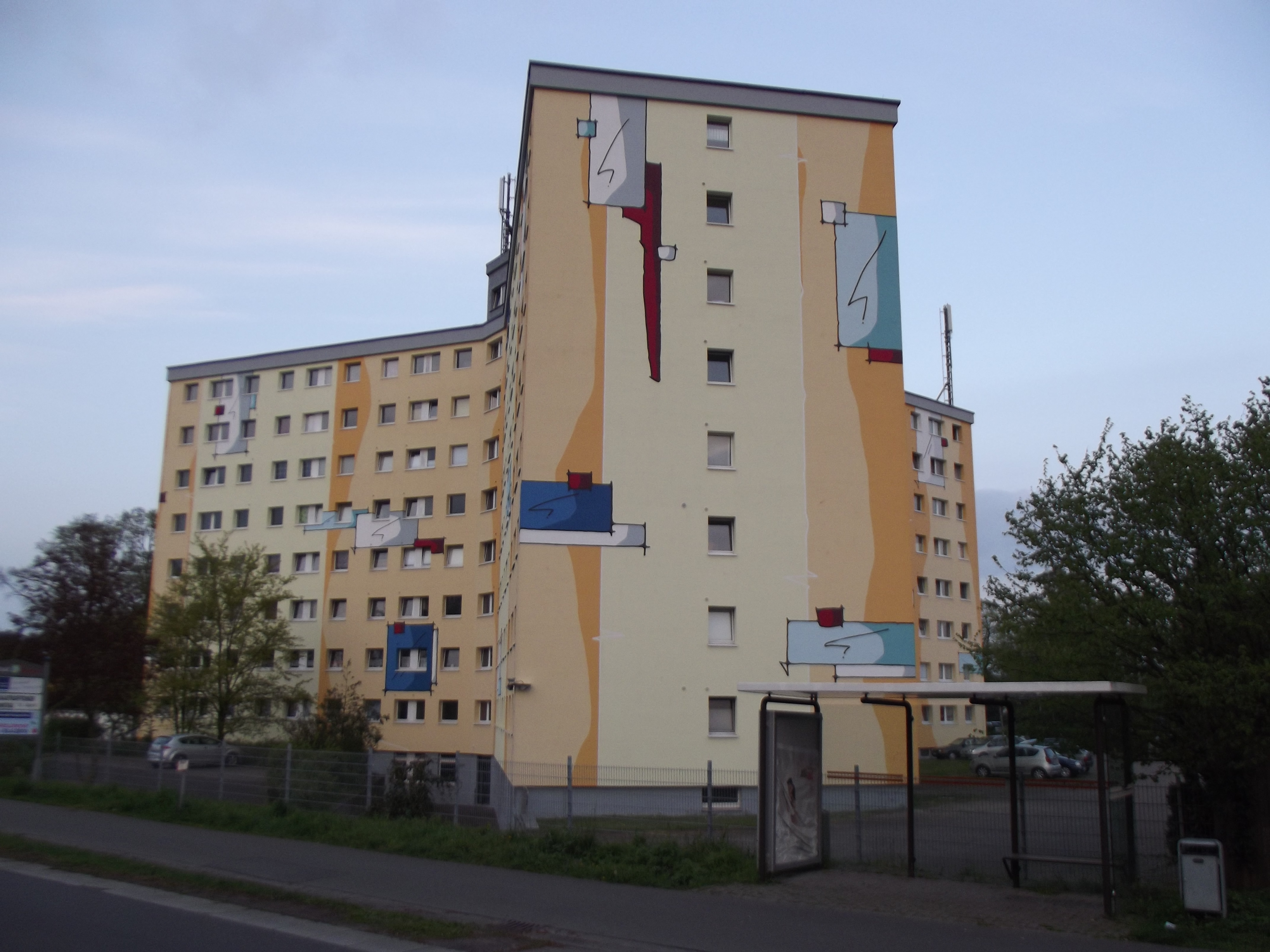 A building Steinfurt, Germany, shaped like the letter "Y"